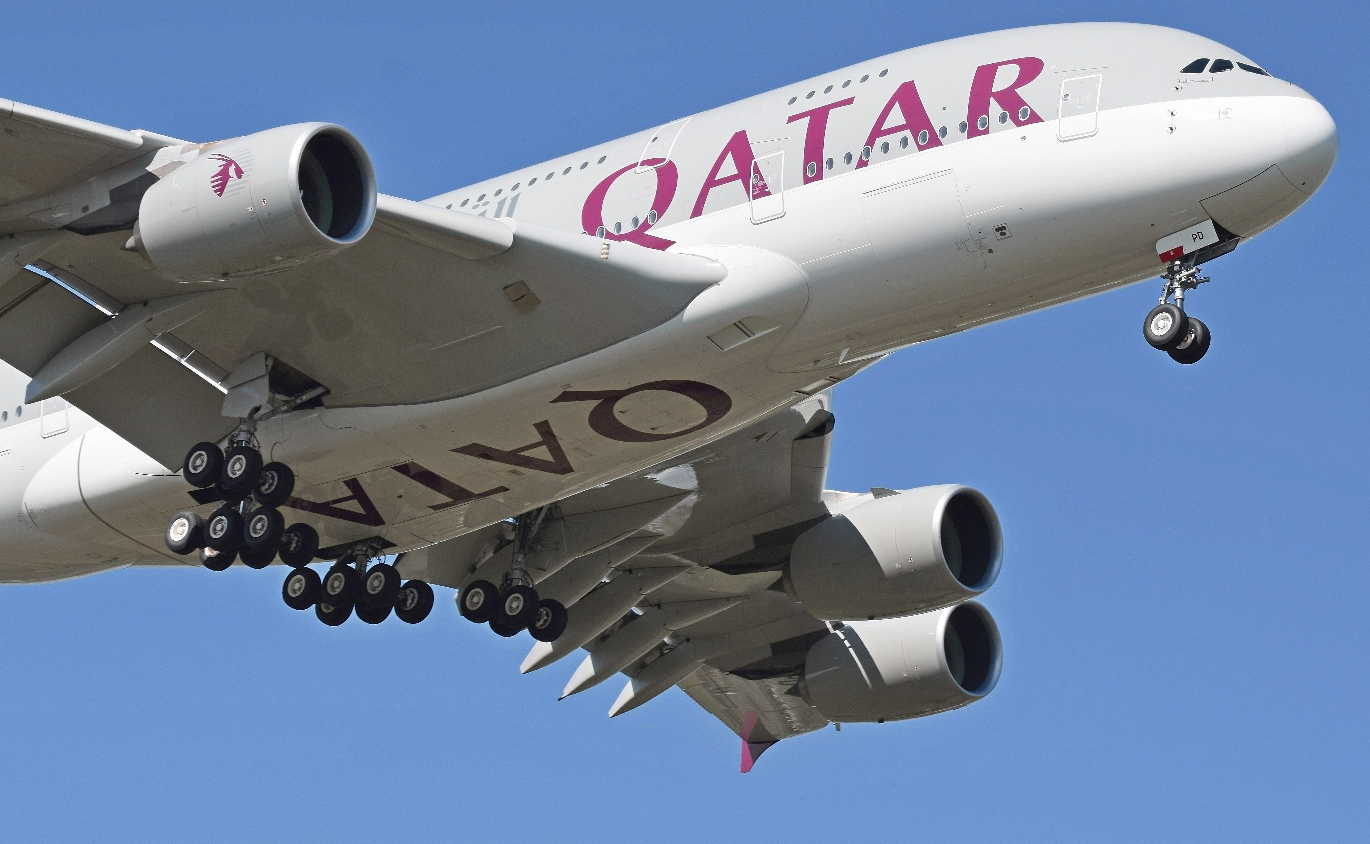 Qatar Airways Airbus A380 (A7-APD) arrives at London Heathrow Airport. It has twenty main undercarriage wheels (four + four on the wing and six + six on the fuselage).